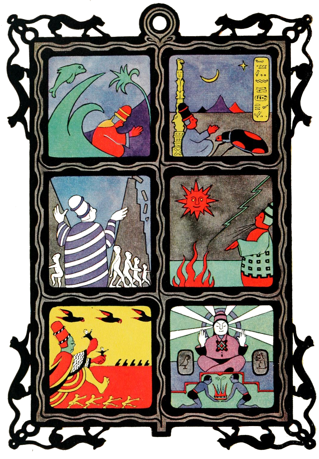 Frontispiece from File:The Voyage of Doctor Dolittle.djvu